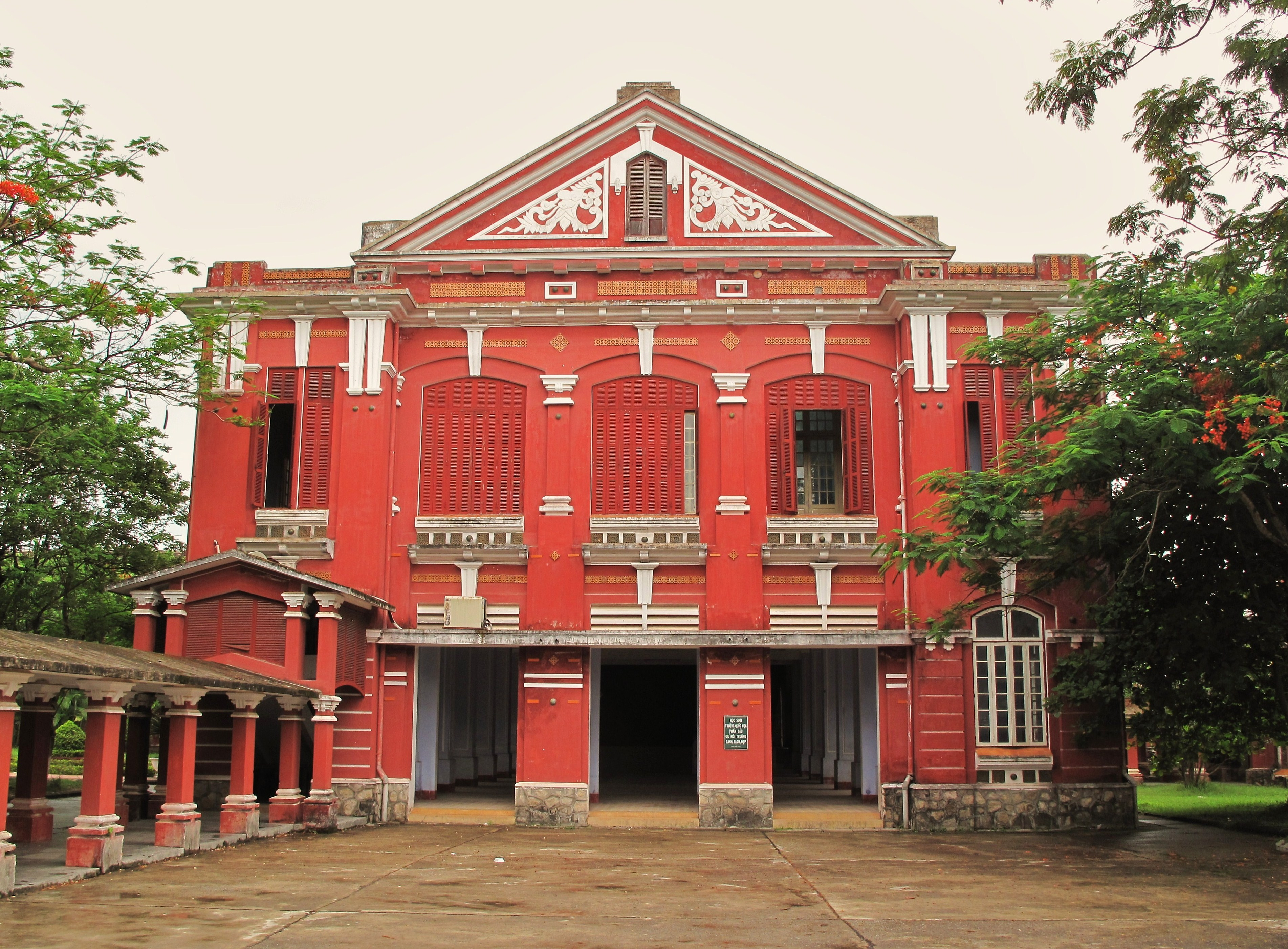 Quoc Hoc main building (side)